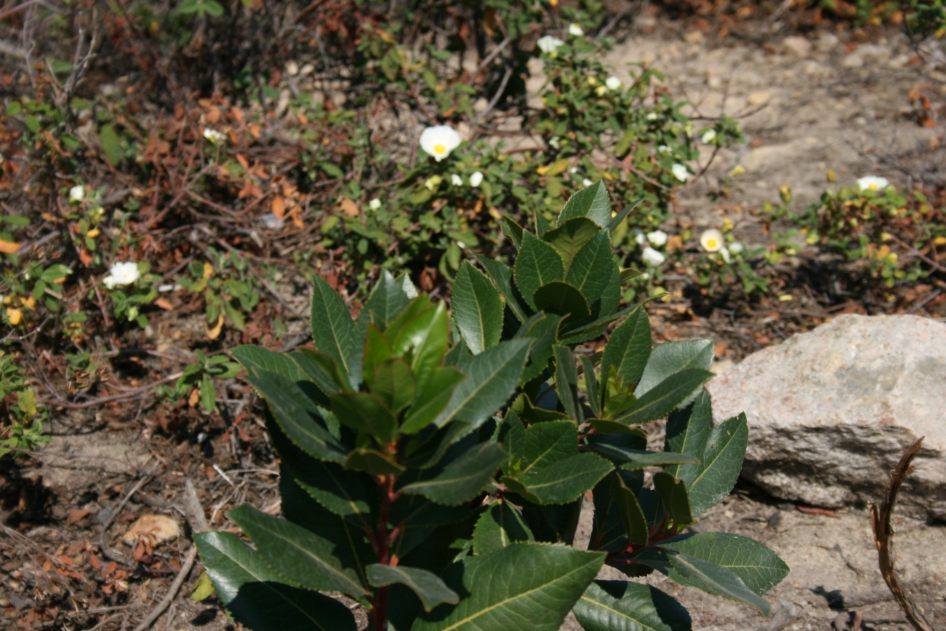 Arbutus unedo: Young plant. Photo taken at Ostriconi, Corsica.